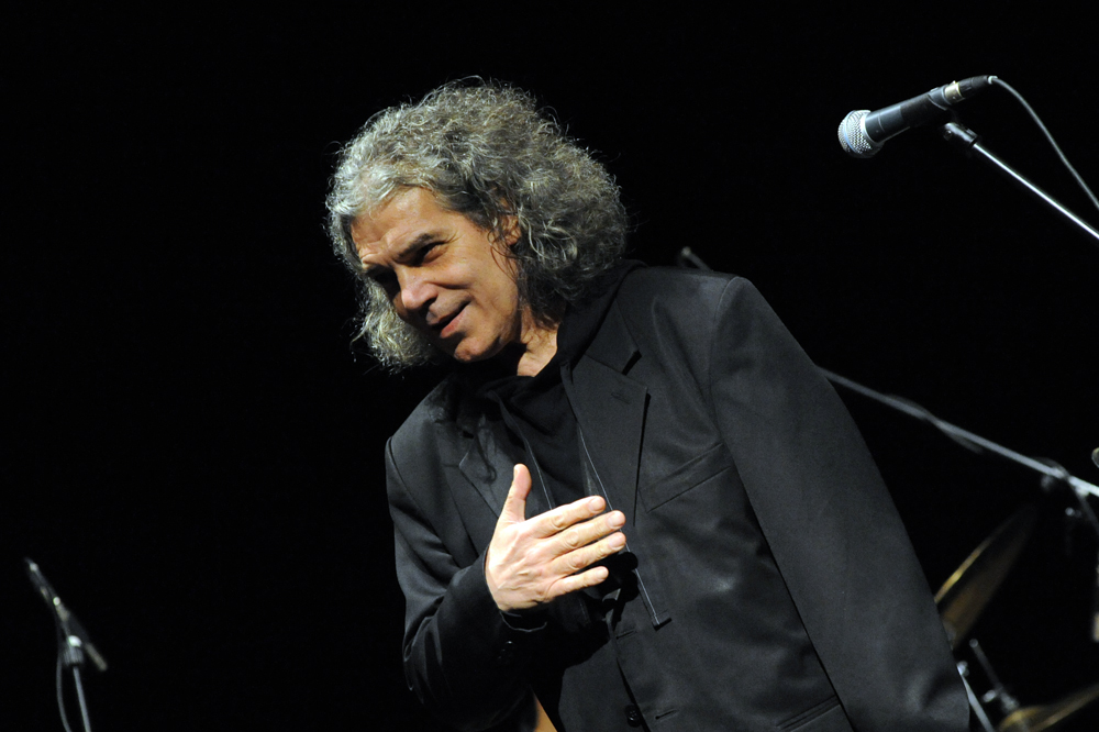 Jorgos Skolios - Greek singer living in Poland - during a benefit concert in Warszawa, Poland in November 2010.